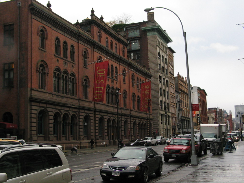 Looking southward along the eastern side of Lafayette STreet